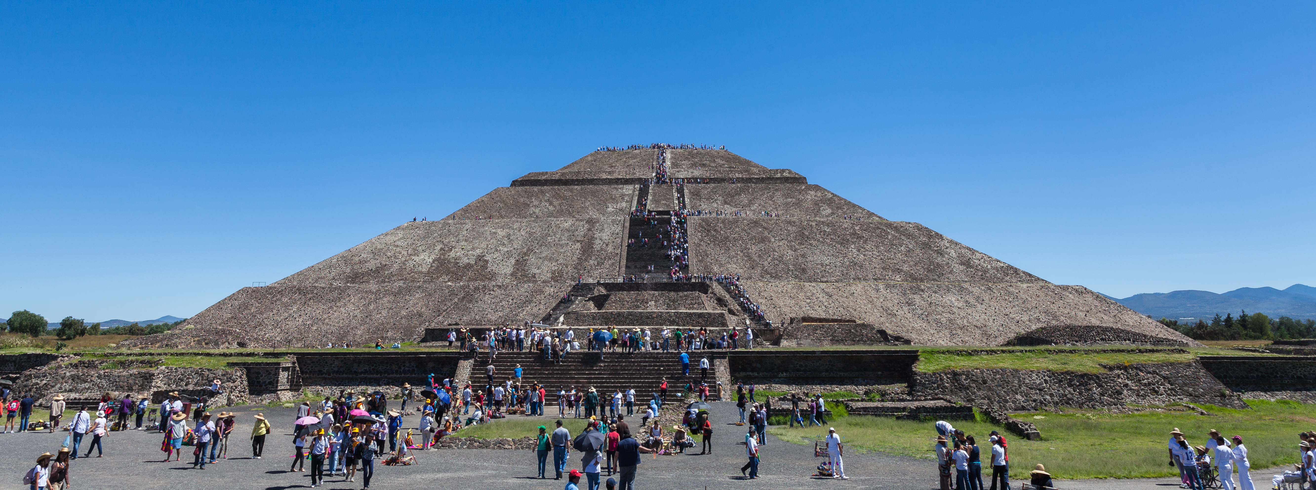 Pyramid of the Sun, Teotihuacán, Mexico